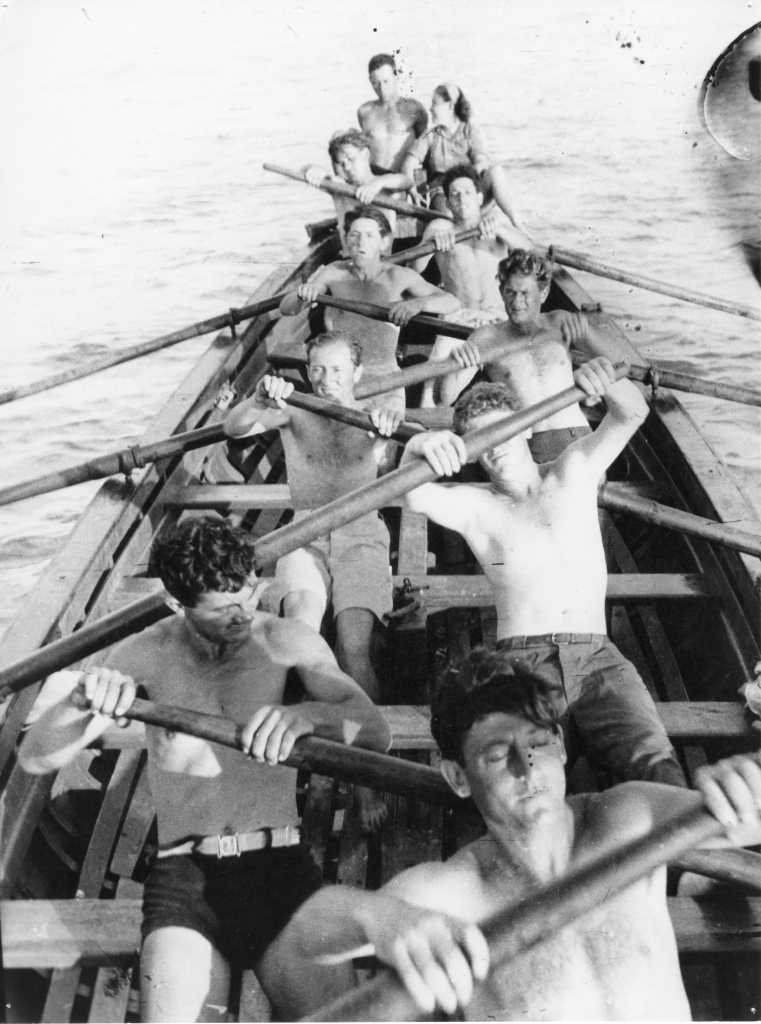 The Palmach, Israel Defense Forces